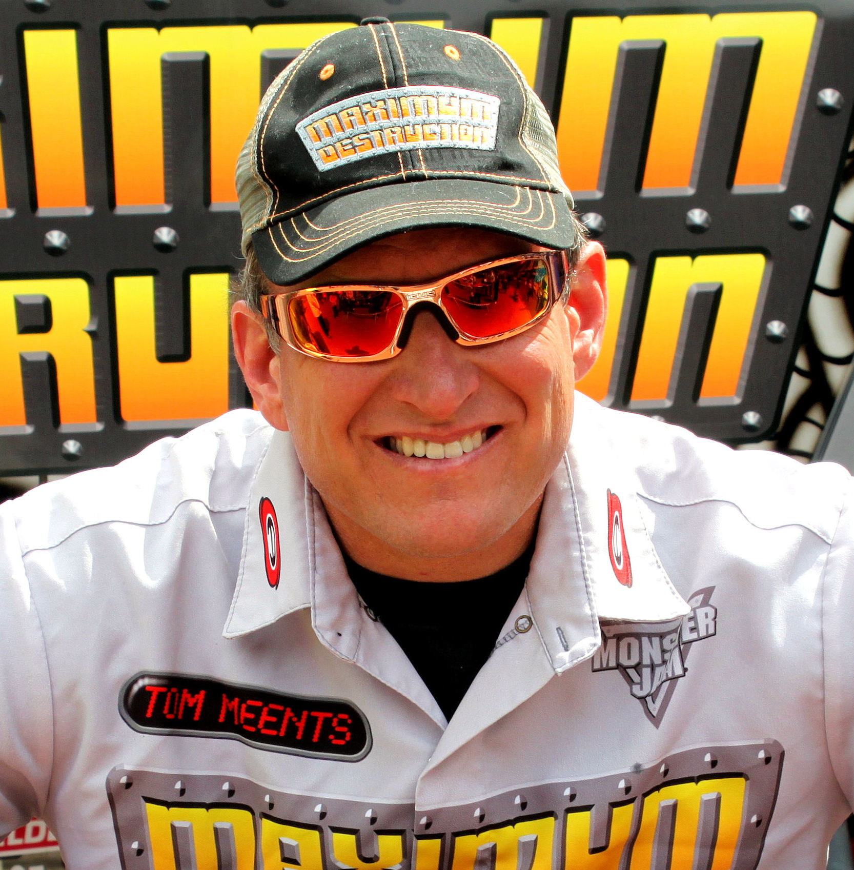 Tom Meents